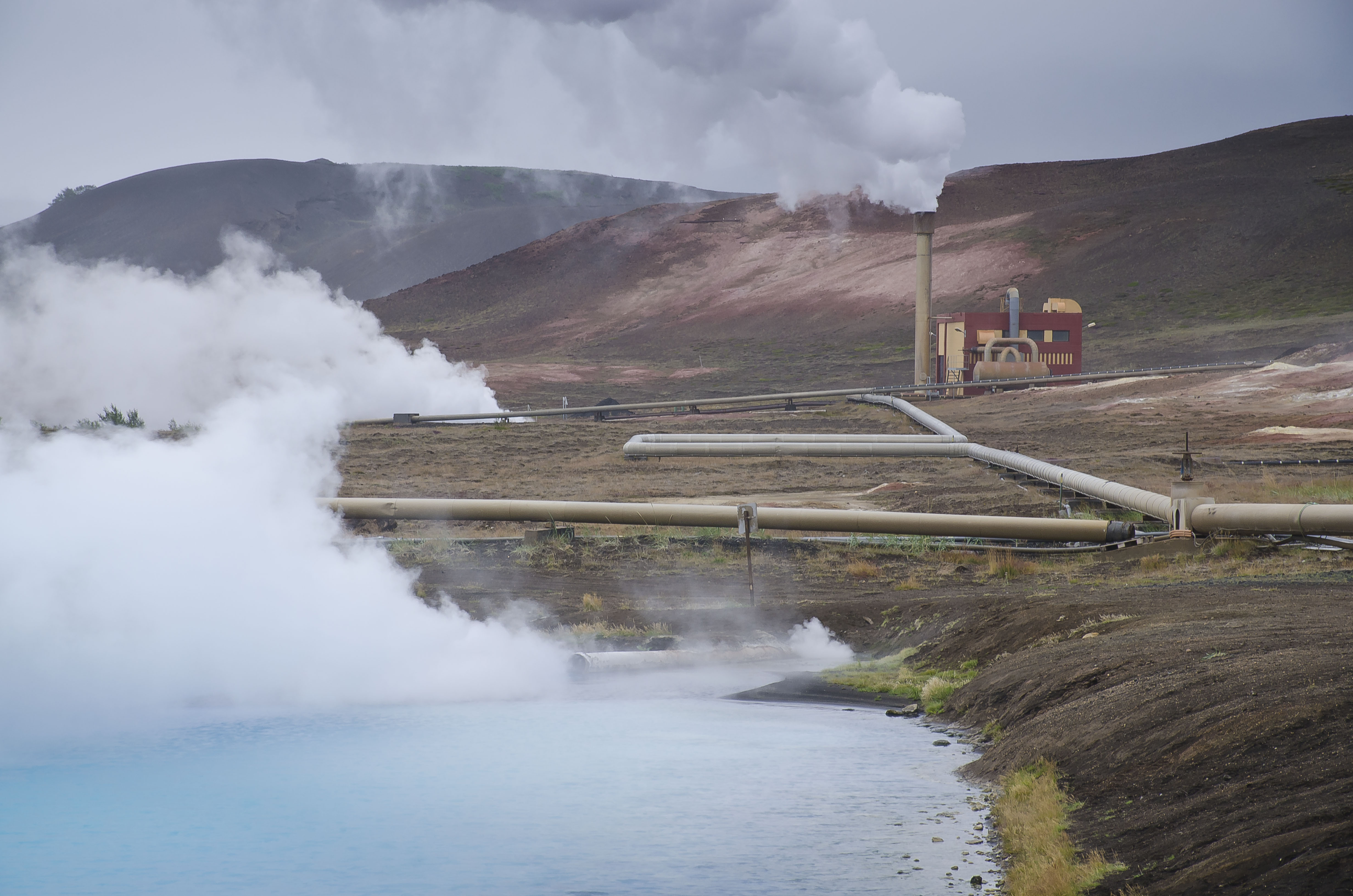 Bjarnarflag geothermal power plant, Iceland